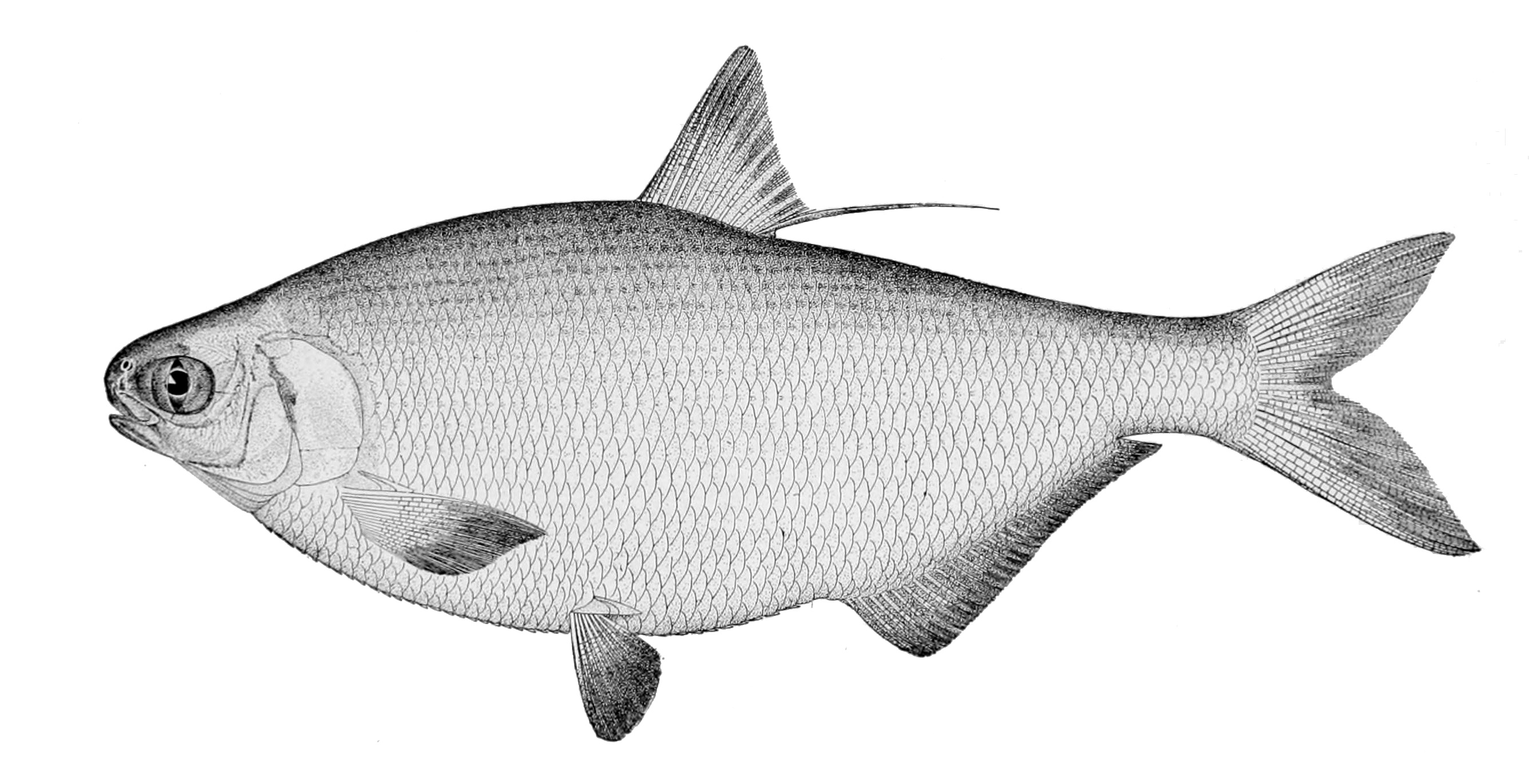 Dorosoma cepedianum